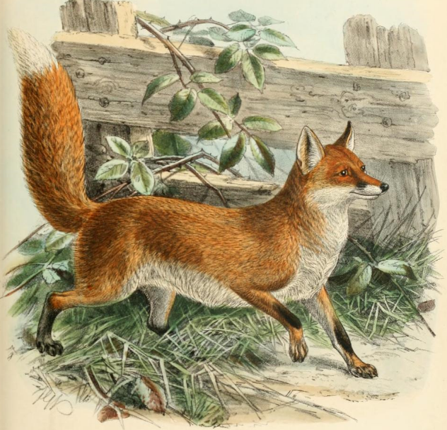 Engraving of a common red fox by J. G. Keulemans